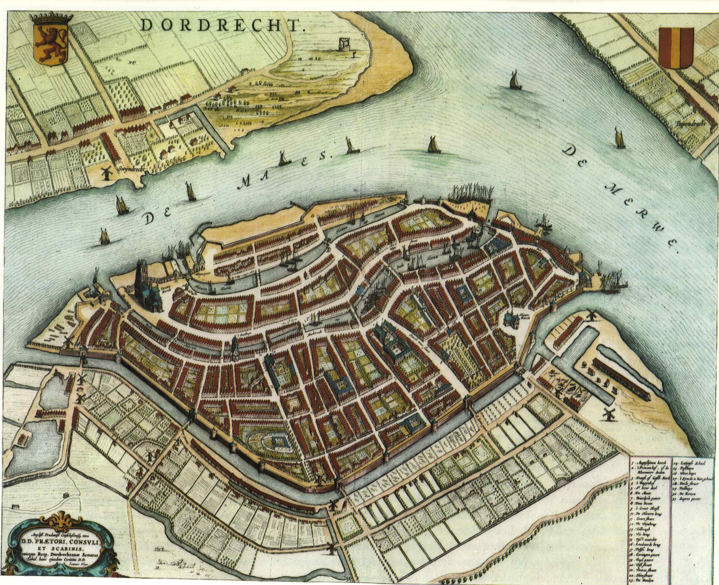 Title Dordrecht from"Blaeu's Toonneel der Steden"(Dutch city maps, Edited by Willem and Joan Blaeu), 1652.